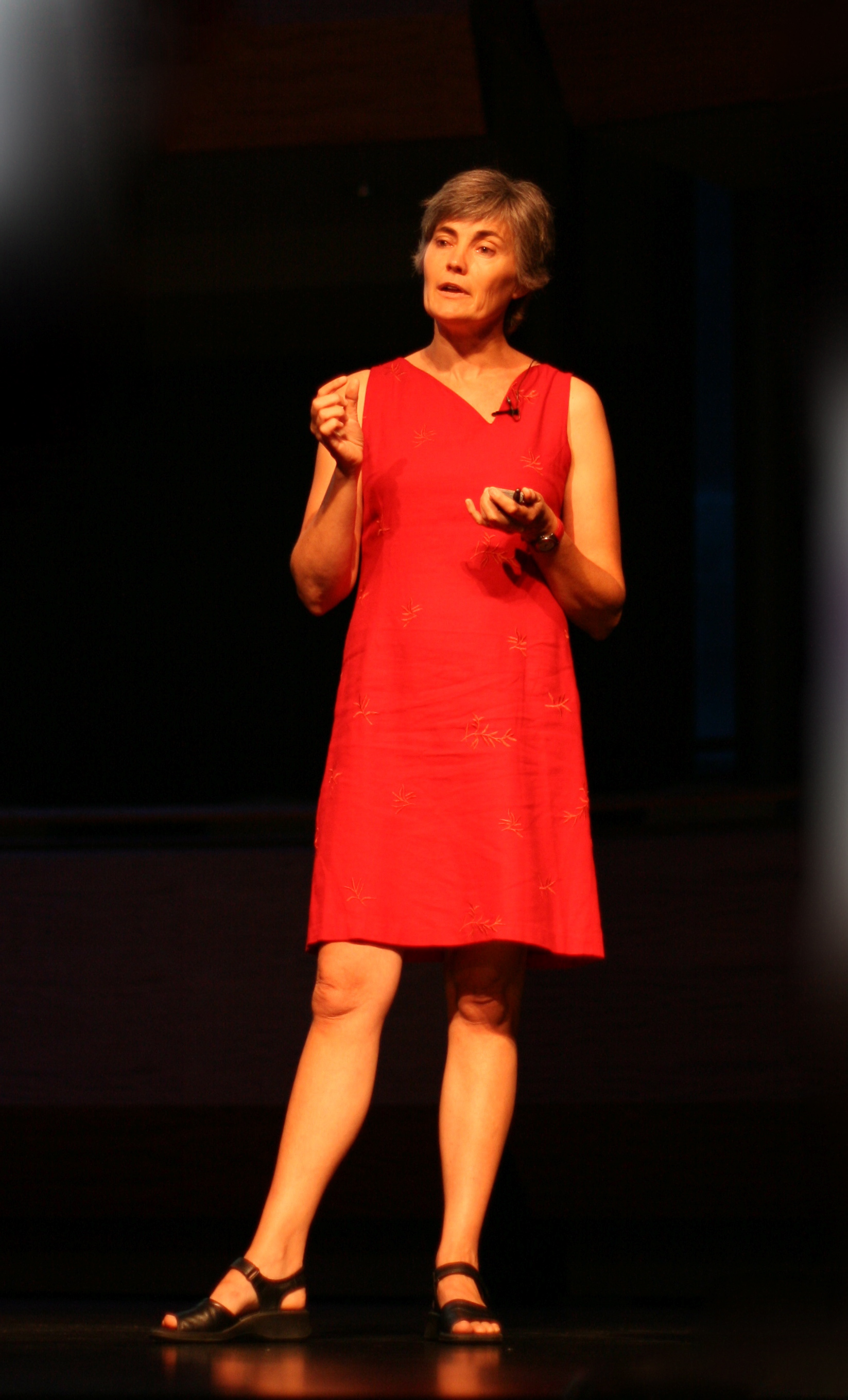 Phil was excited to see Robin, an I enjoyed hearing about proposals for mesh networks. Shame we didn't get to talk to her.